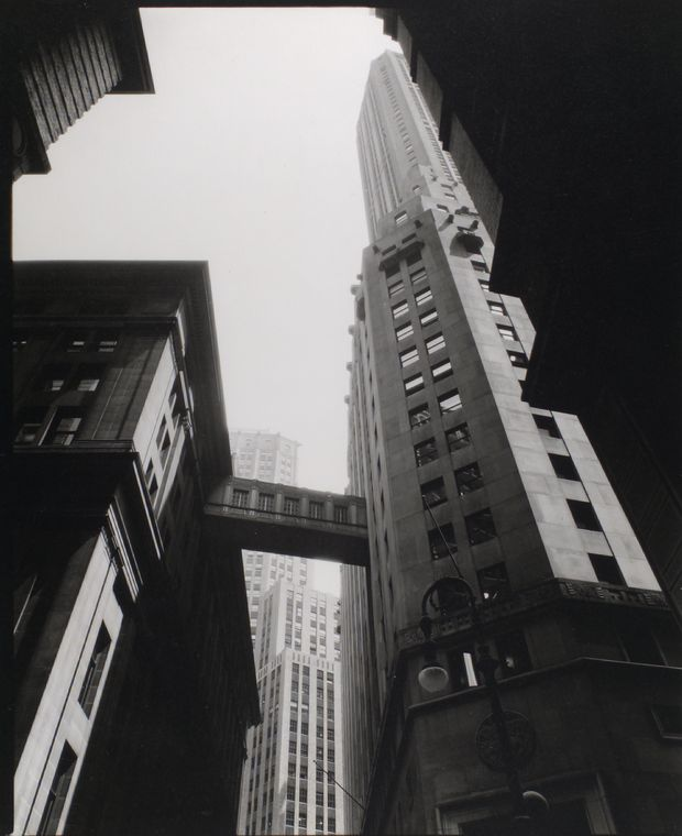 Digital ID: 482808. Abbott, Berenice -- Photographer. May 12, 1936 Notes: Code: I.C. Exhibited: Modern Vision #82 Looking up at inter-building bridge, buildings in foreground are dark masses, buildings beyond well lit. Source: Changing New York / Berenice Abbott. ( Repository: The New York Public Library. Photography Collection, Miriam and Ira D. Wallach Division of Art, Prints and Photographs. See more information about and others at Persistent URL: Rights Info: No known copyright restrictions; may be subject to third party rights (for more information